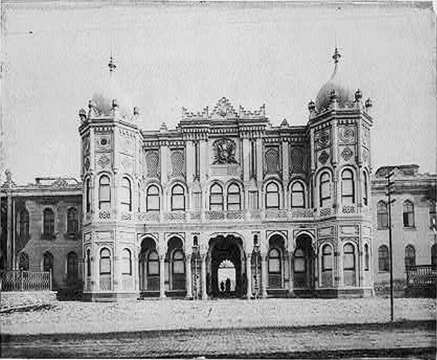 Taksim Military Barrack sor Halil Pasha Artillery Barracks ca. 1880–1893, Demolished in 1939